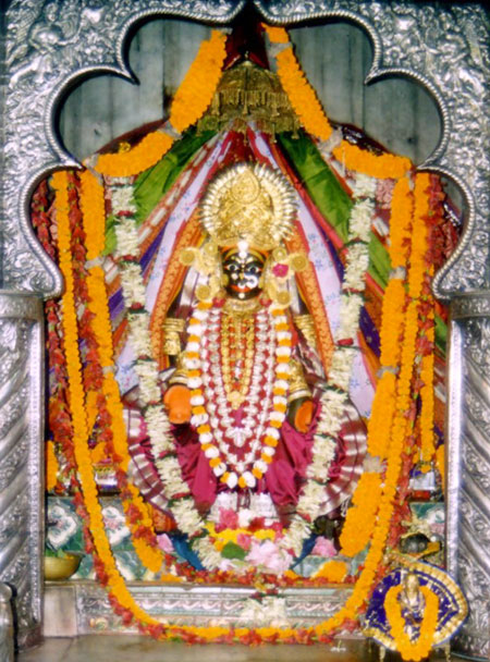 Image of the deity of Chandi temple, Cuttack, Orissa, India. The temple is more than 100 years old. Creator unknown.